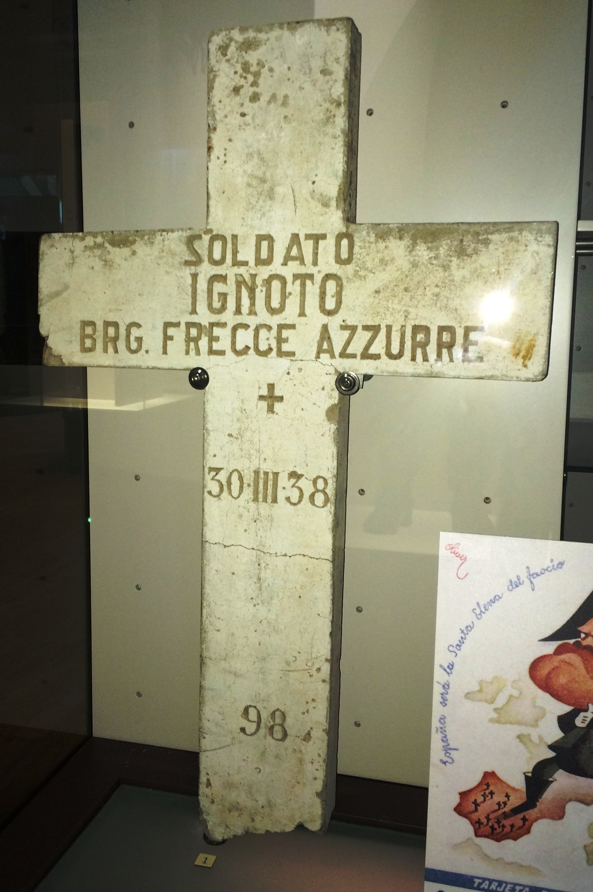 Cross that marked the tomb of an unknown Italian soldier of the Brigata Frecce Azzurre, dead on 30 March 1938 in the Battle of the Ebro. Photo taken at the Royal Military Museum, Brussels.